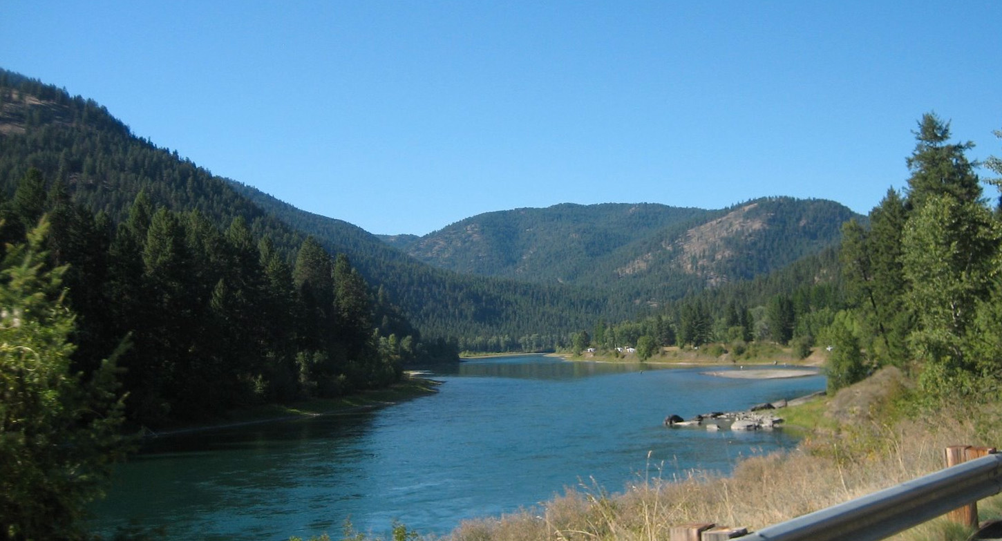 see Image:KootenaiMontana.jpeg